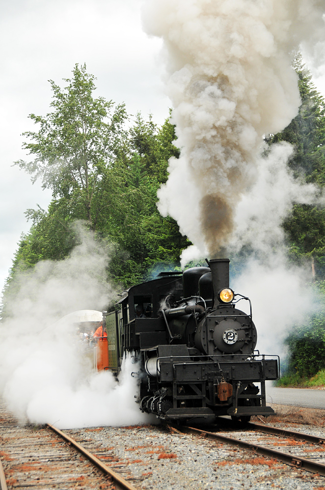 Rayonier Willamette geared engine #2 leaving Eatonville, WA on its way to Mineral, June 23, 2011